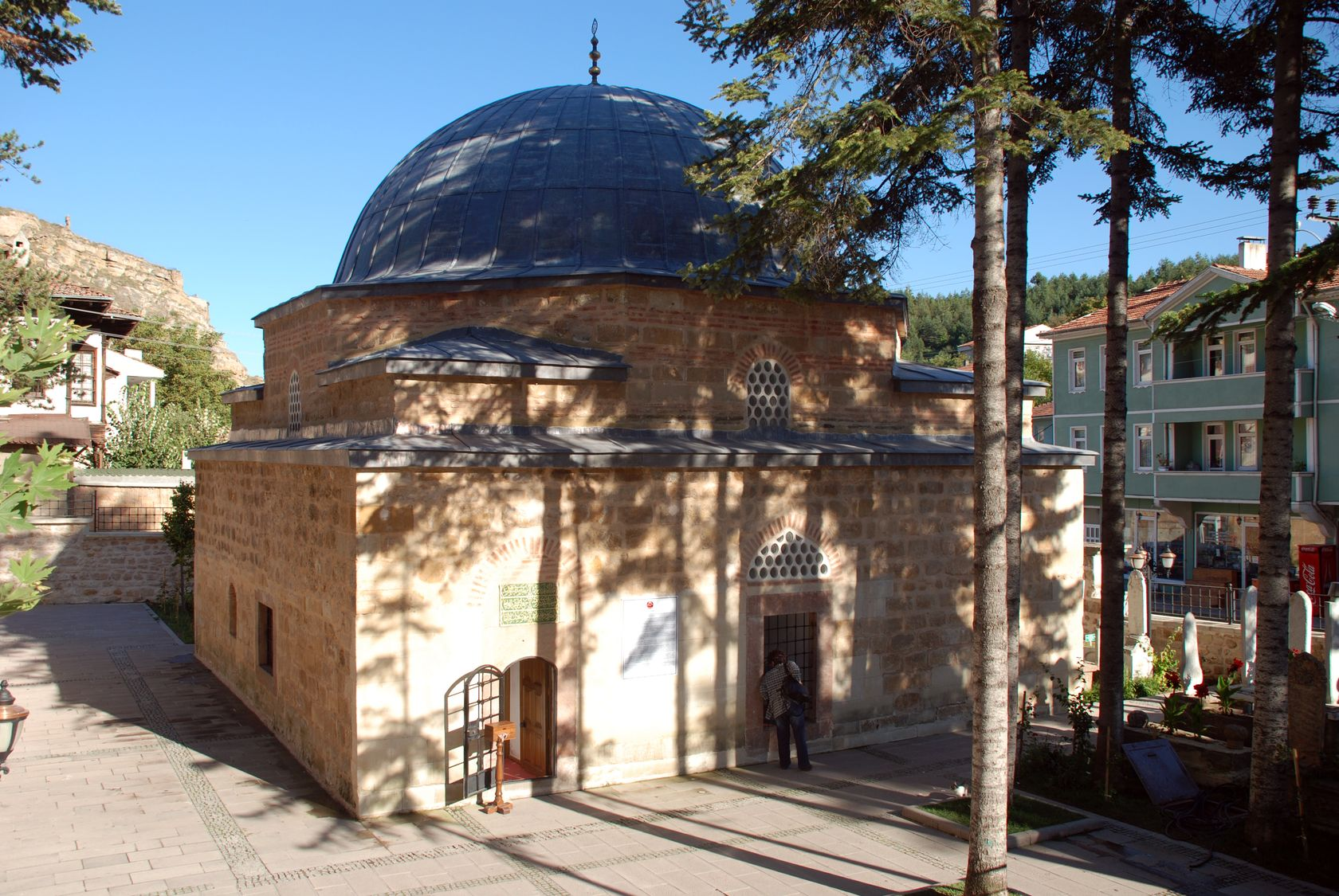 Kastamonu, Turkey, Pir Şeyh Şaban-i Veli Türbesi